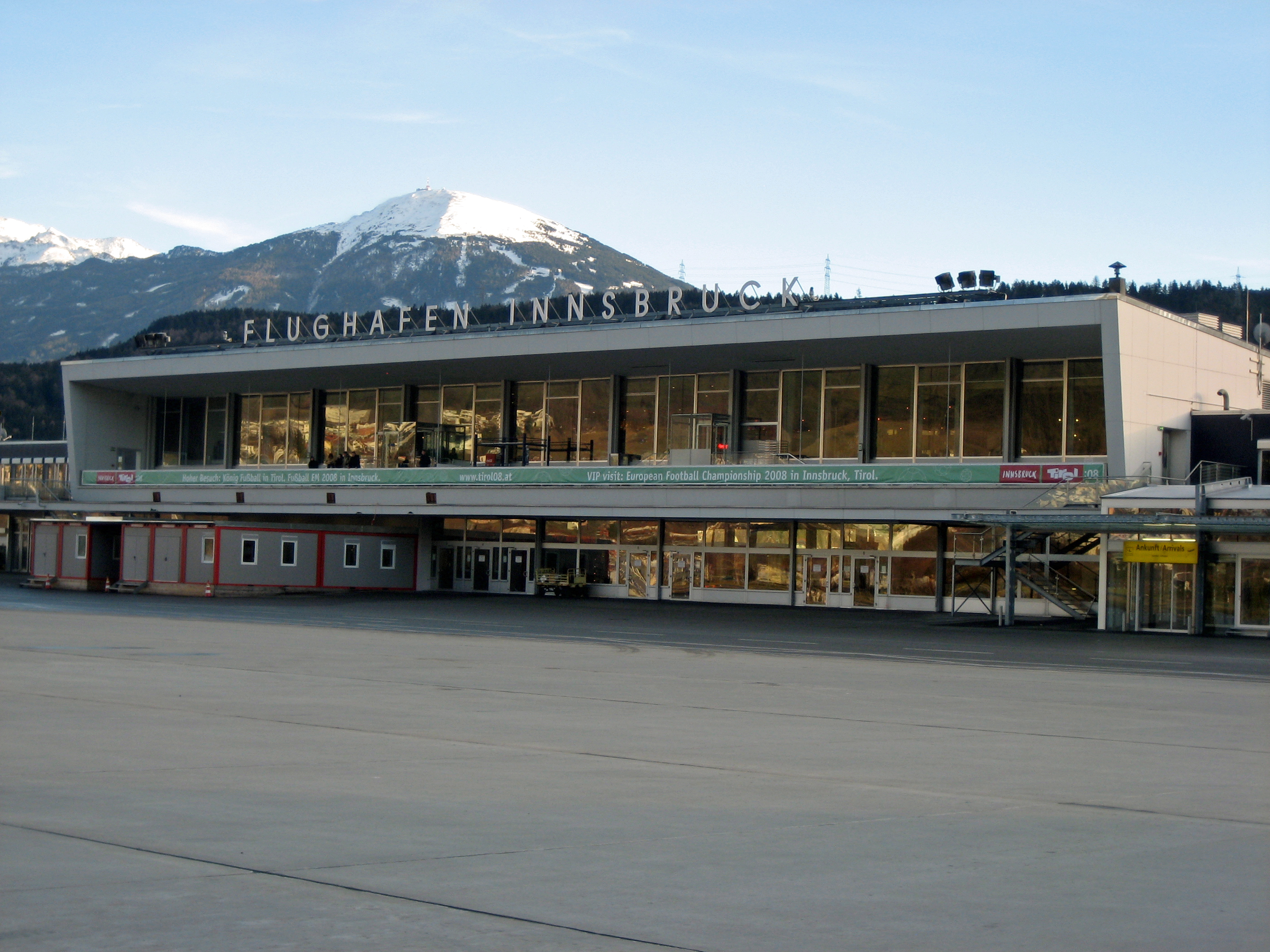 Innsbruck Airport terminal seen from the apron.